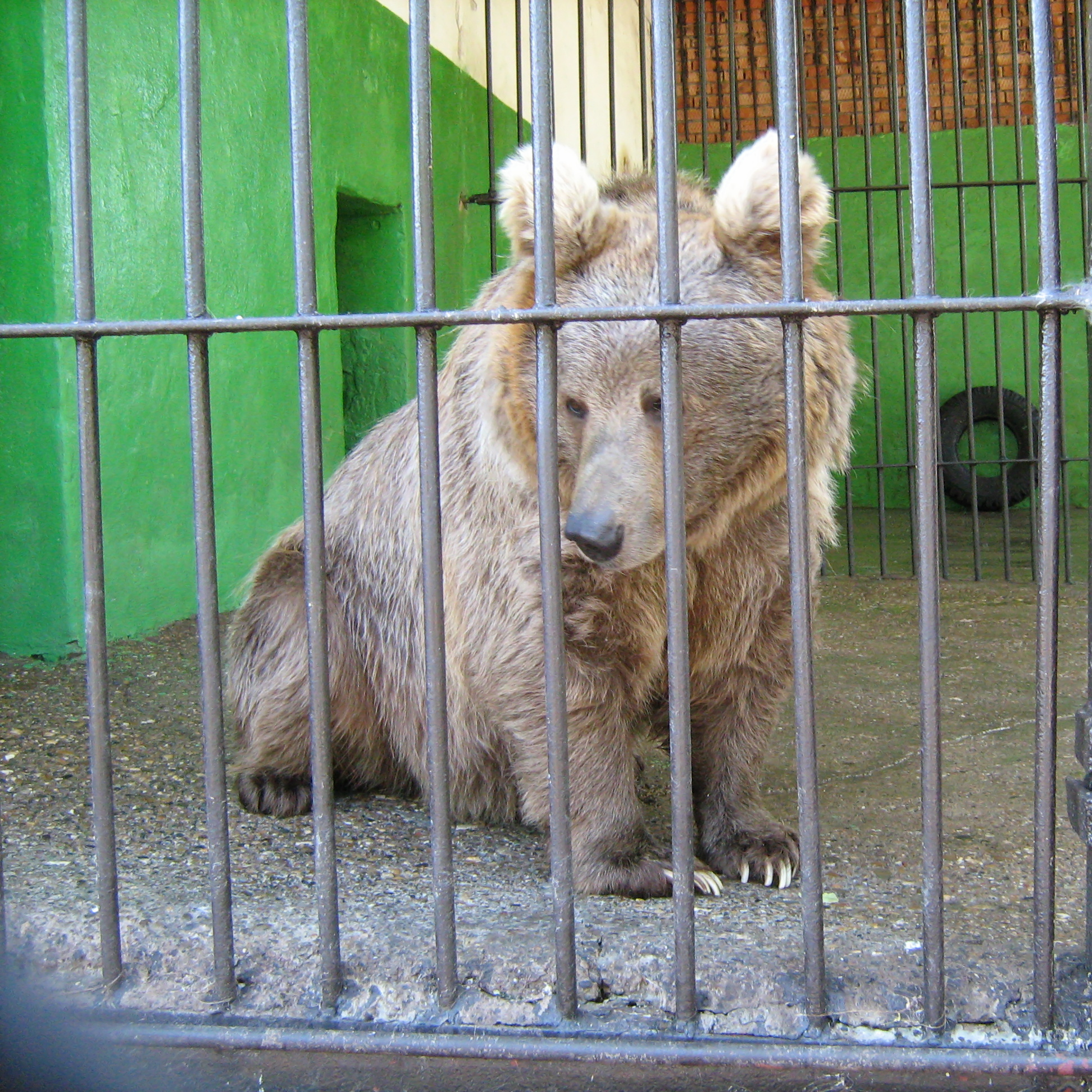 Himalayan Brown Bear (Ursus arctos isabellinus) in Perm Zoo, Russian Federation